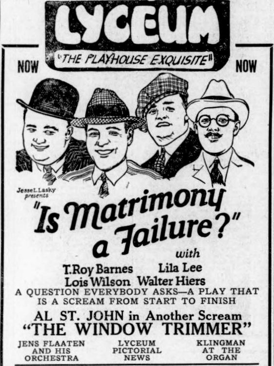 Newspaper advertisement for the American comedy film Is Matrimony a Failure? (1922), on page 19 of the April 29, 1922 Duluth Herald.